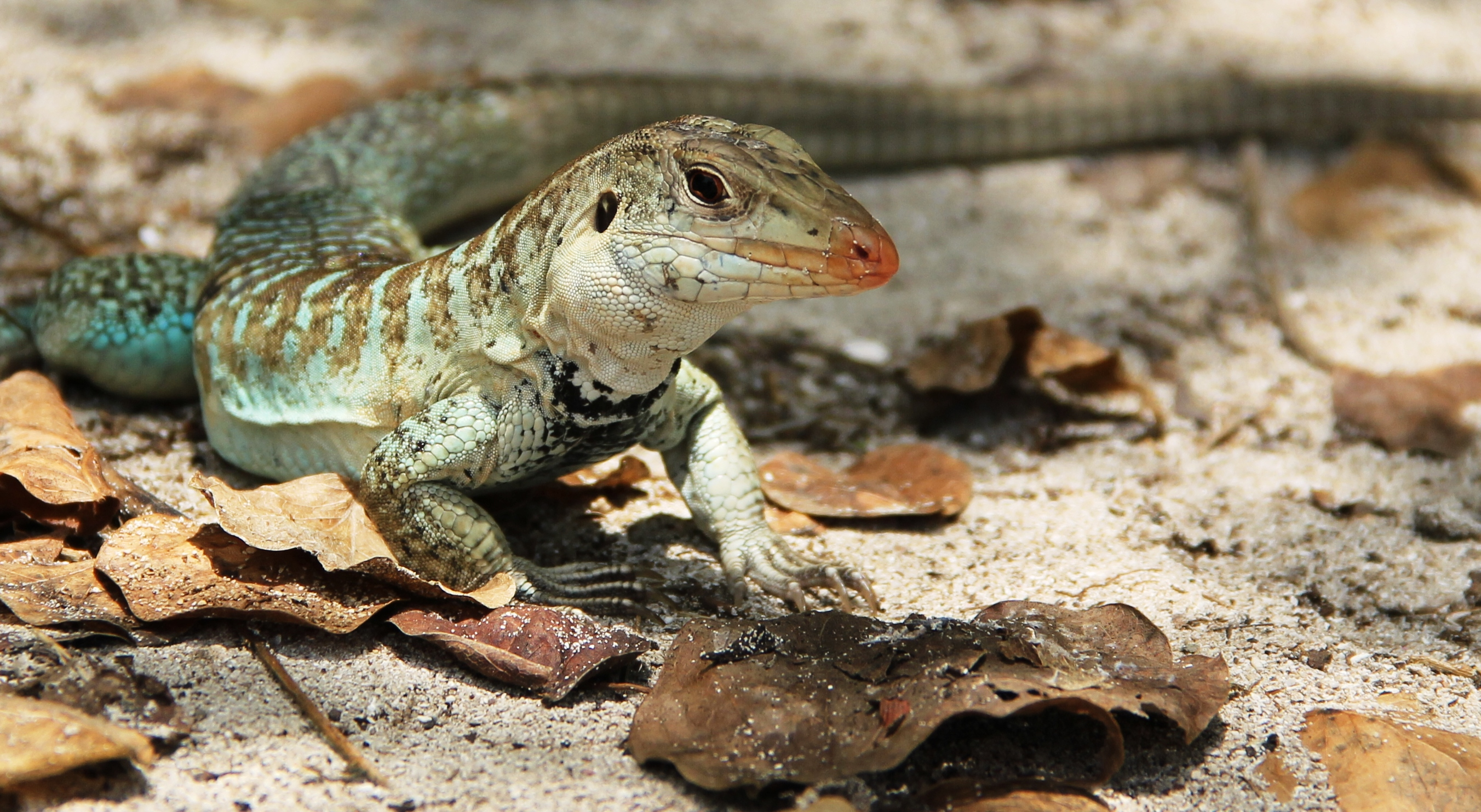 Griswold's ameiva on leaf litter